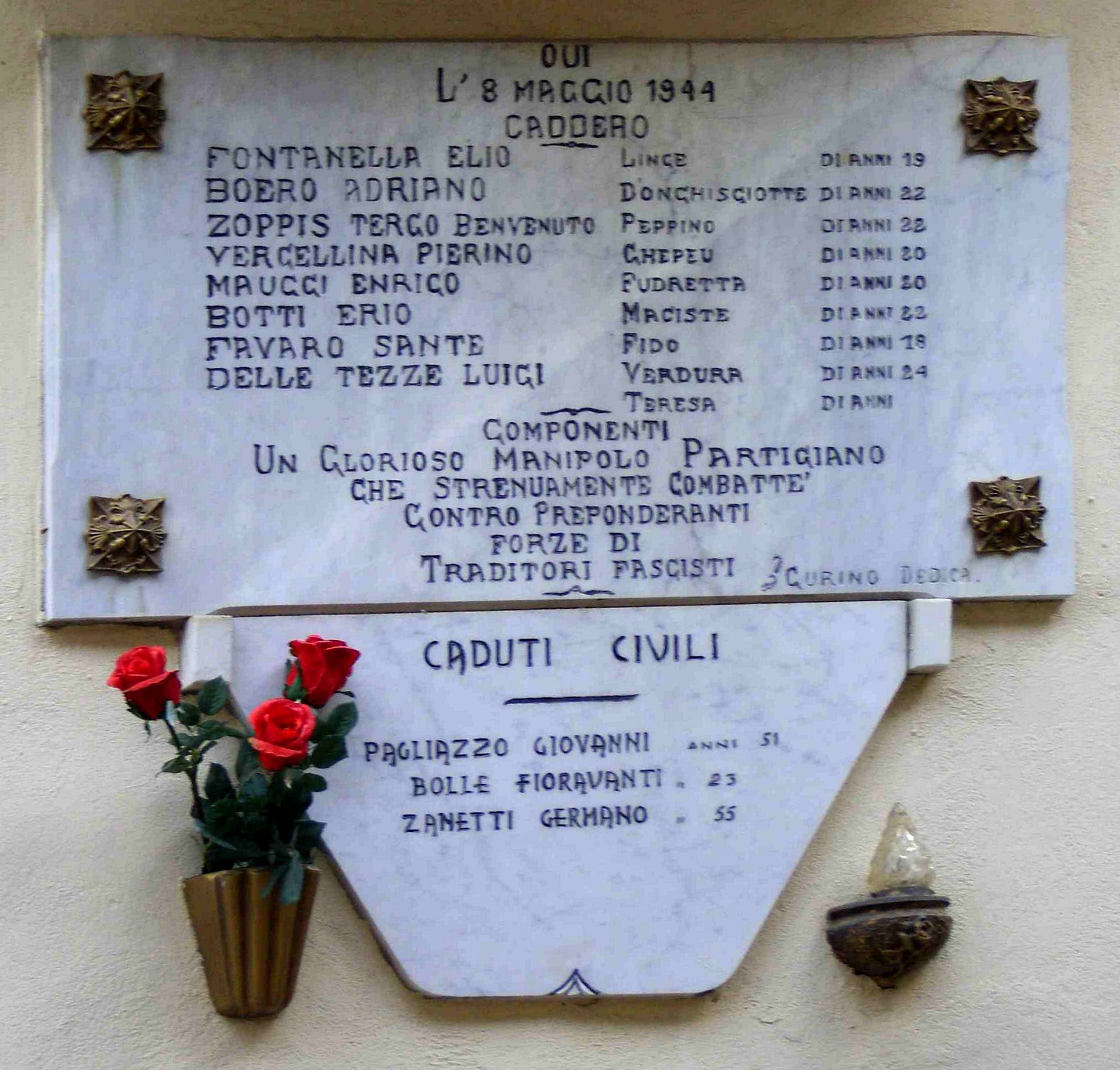 Partisan memorial in Santa Maria - Curino (BI, Italy)